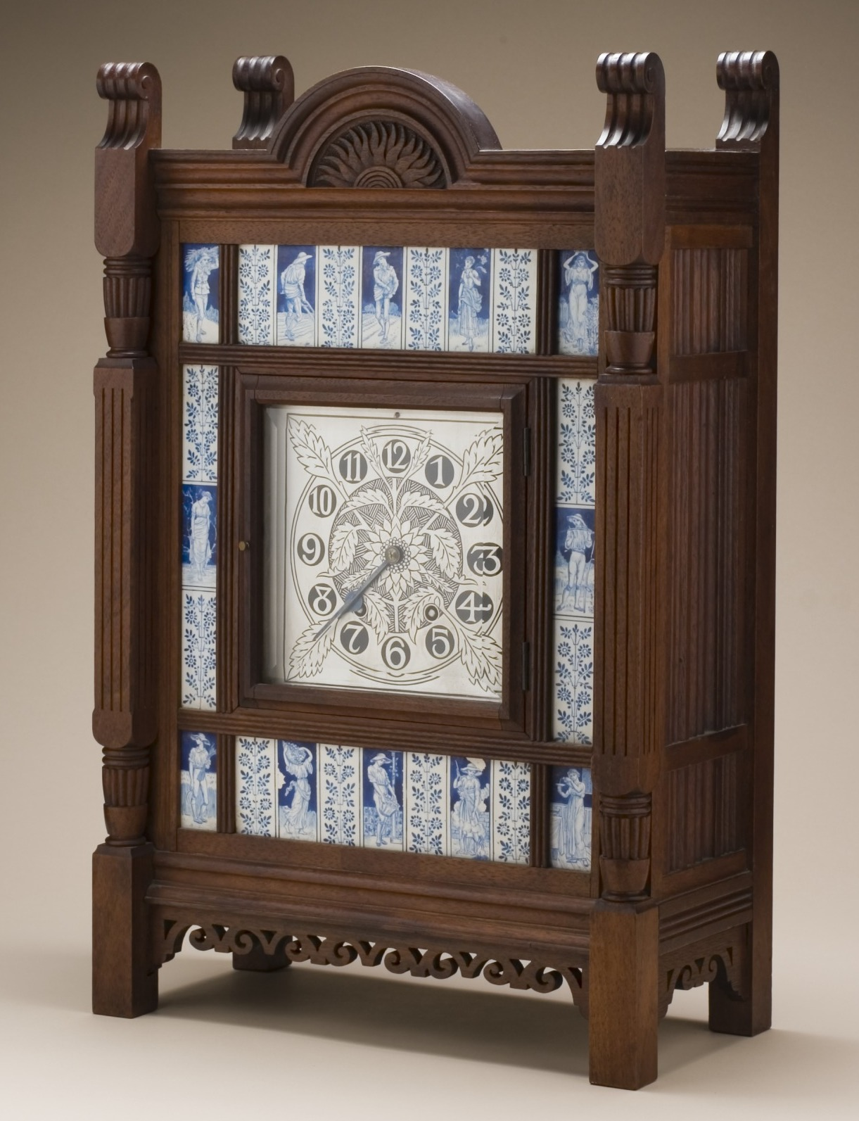 England, circa 1878 Furnishings; Accessories Cherry case, ceramic and aluminum 21 3/4 x 13 13/16 x 6 1/2 in. (55.25 x 35.1 x 16.51 cm) Decorative Arts Deaccession Fund (M.2006.205.1) Decorative Arts and Design